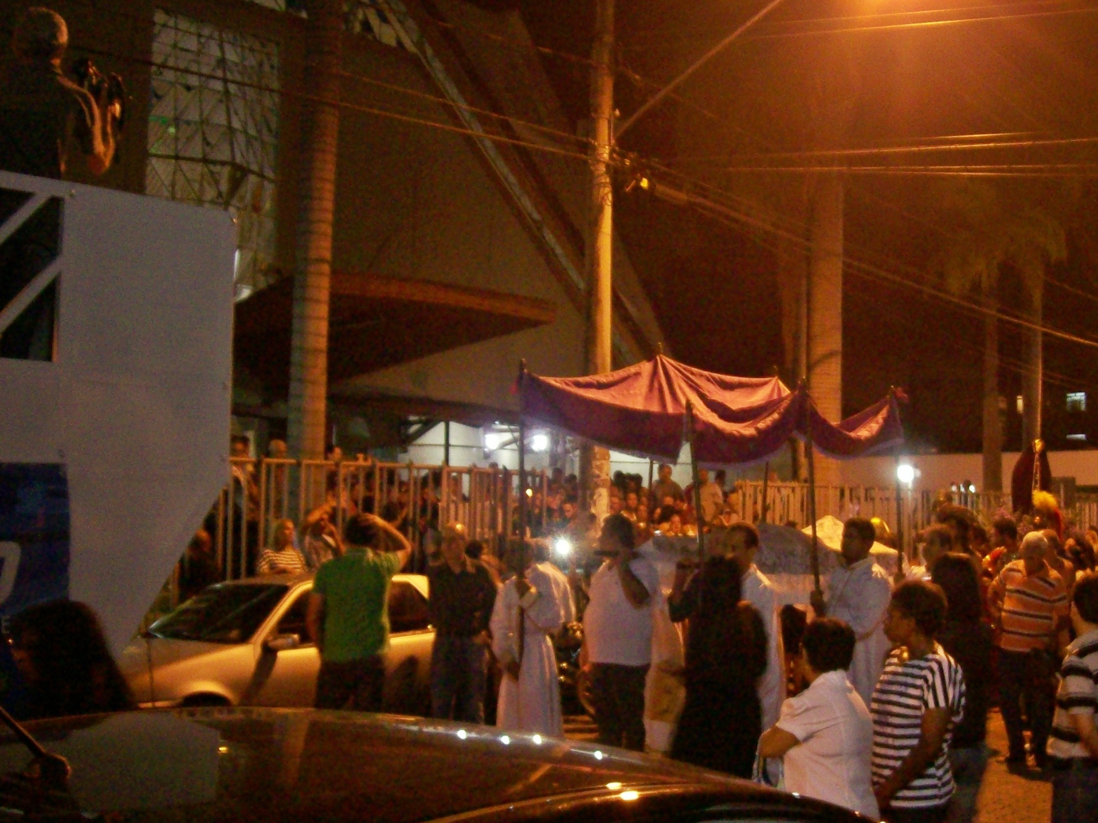 The Passion procession of 2015 of the Saint Sebastian parish leaving the Saint Sebastian Cathedral, in Coronel Fabriciano, Minas Gerais, Brazil.